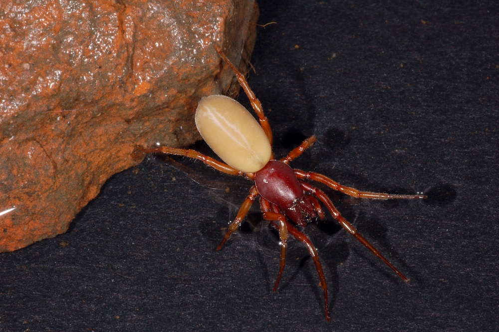 Dysdera erythrina, Nied, Frankfurt/Main, Germany